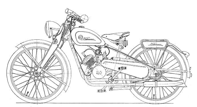 USSR motorized bicycle K1B (1946)